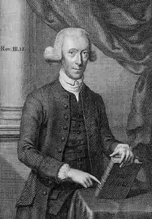 Cornelius Cayley (1727-c.1780)